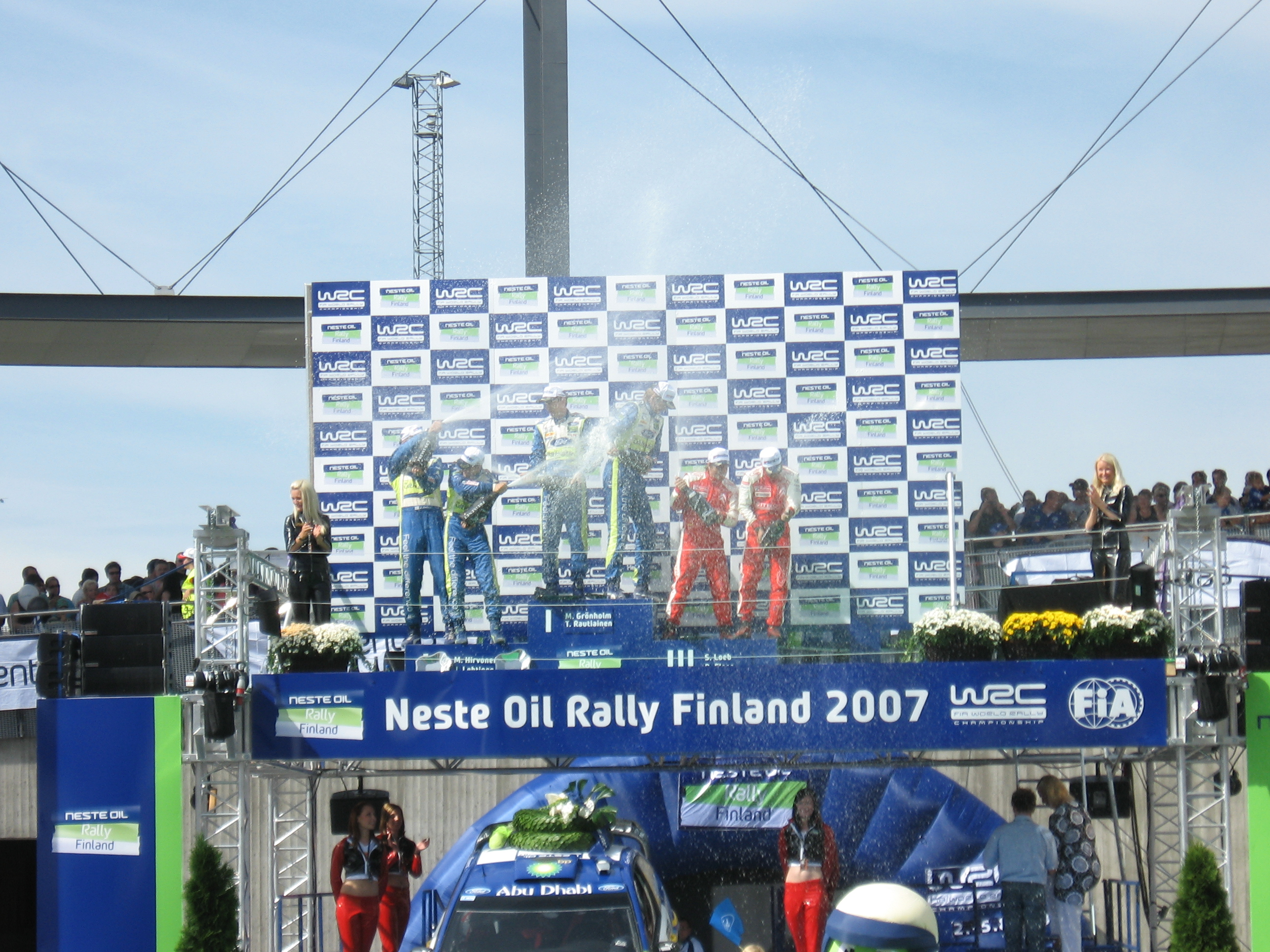 The podium ceremony of the 2007 Rally Finland.